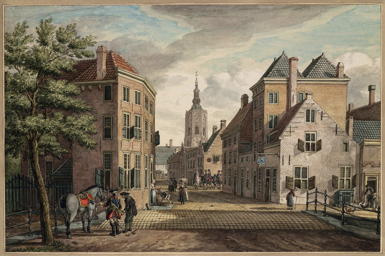 Prinsestraat, The Hague, in 1775. Paintbrush in watercolor by Paulus Constantijn la Fargue